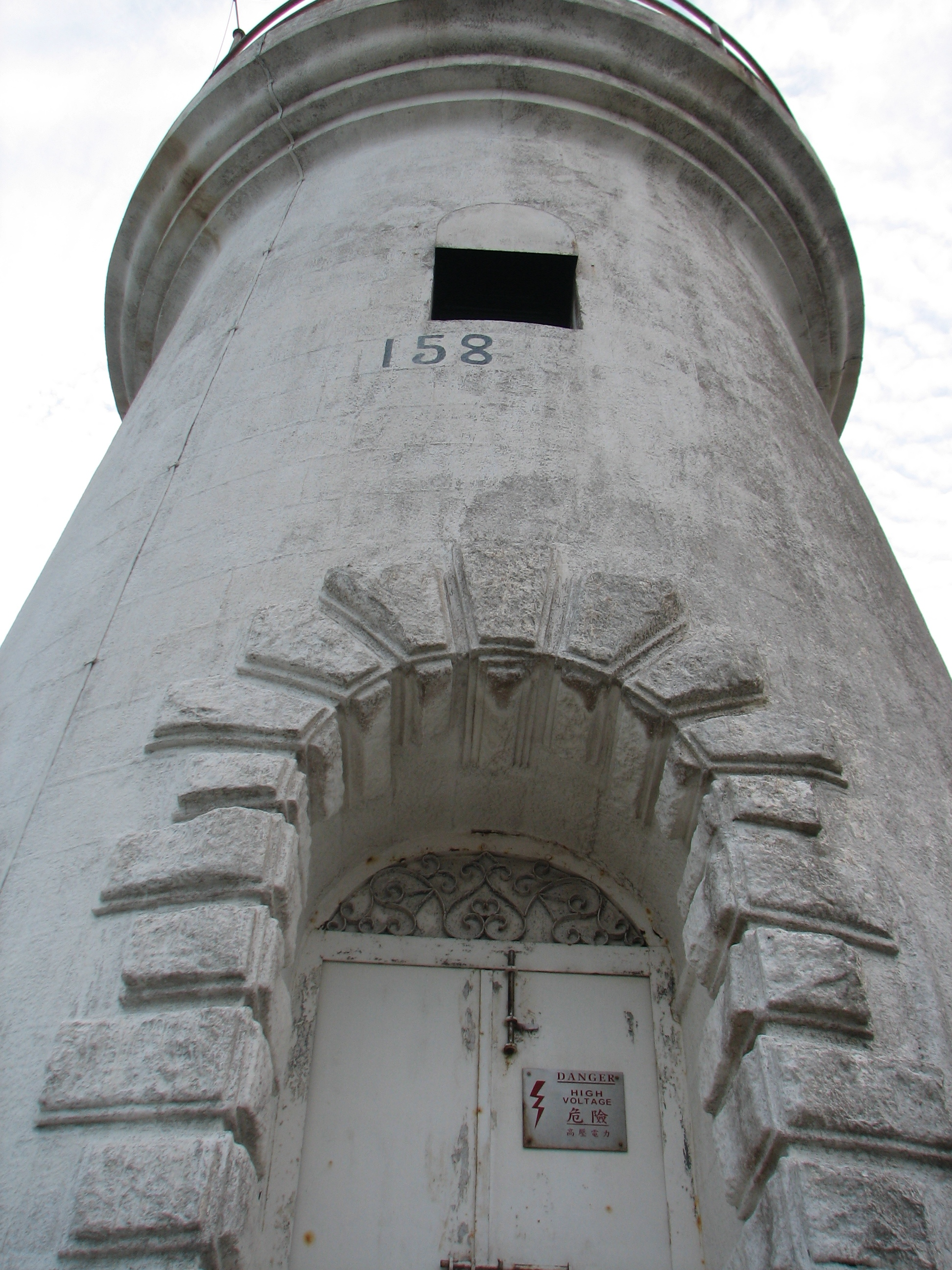 Cape D'Aguilar Lighthouse (Hong Kong)